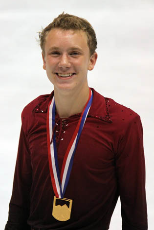 Ross Miner (USA) on the podium (1st) at the 2009-2010 Junior Grand Prix Lake Placid